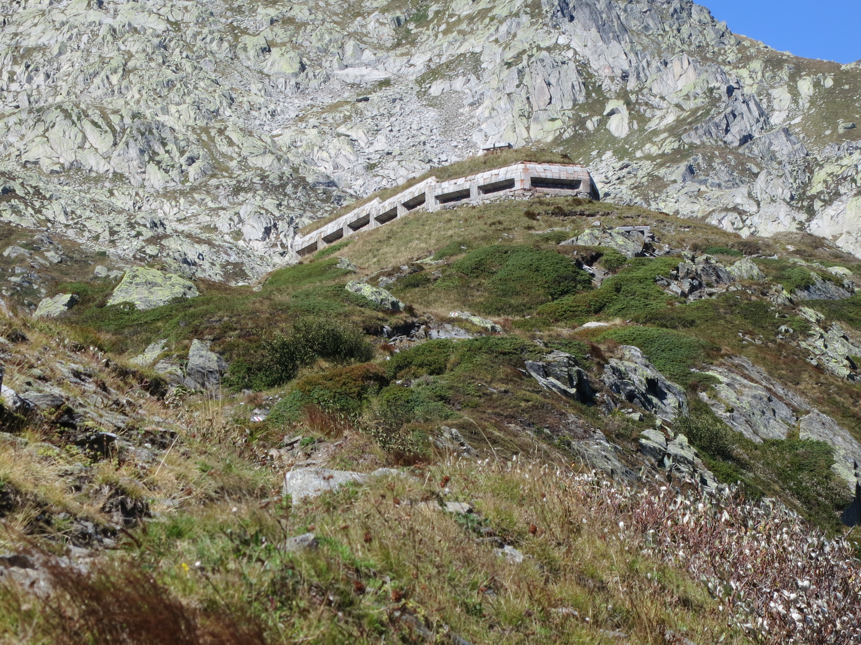 Festung Motto Bartola, Airolo, Schweiz: Infanteriebunker Fieudo oben A 8400 (1902-1907)